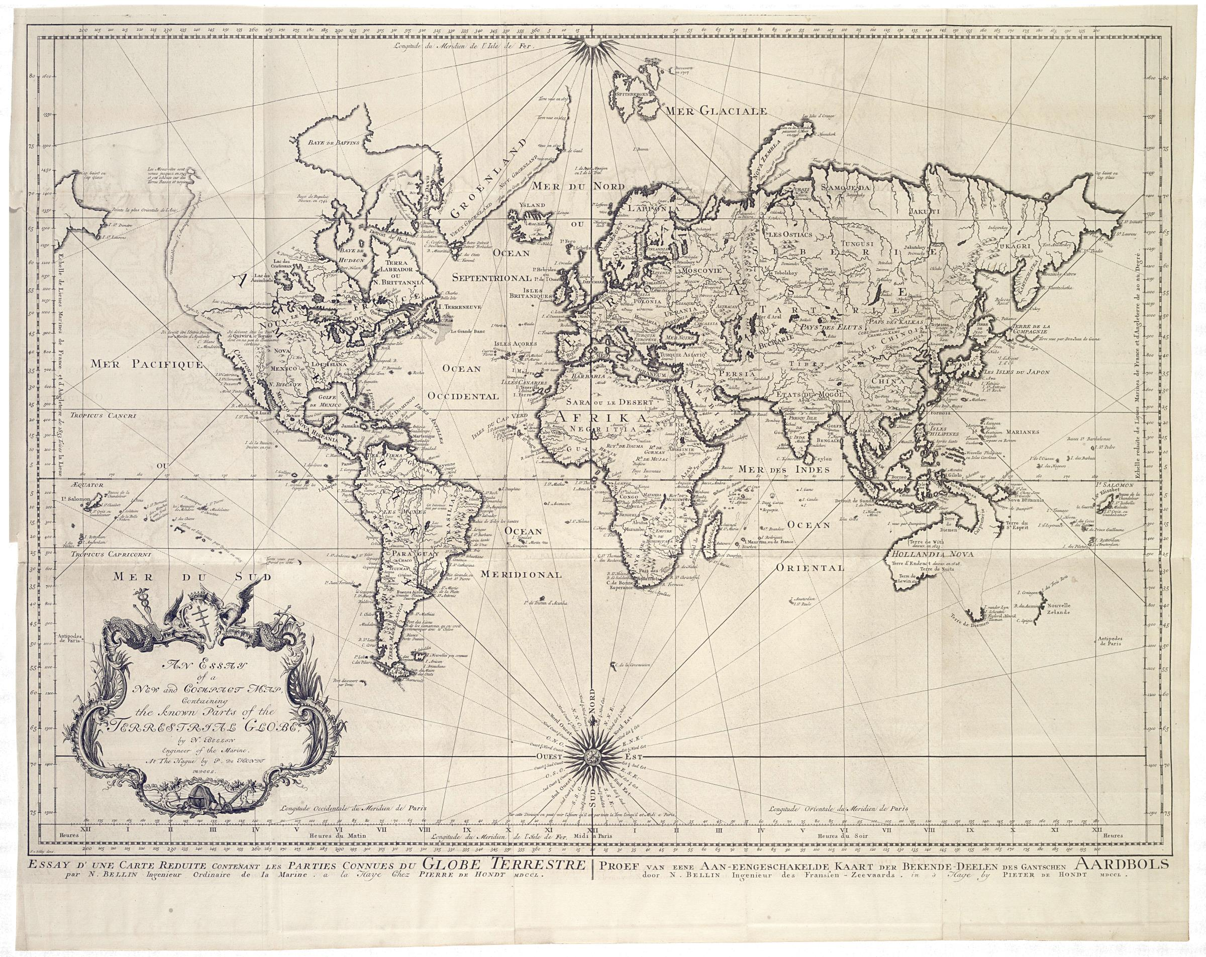 Map of the world. Proef van eene Aan-eengeschakelde Kaart der Bekende-Deelen des Gantschen Aardbols. An Essay of a New and Compact Map, Containing the known Parts of the Terrestrial Globe / By N. Bellin / Engineer of the Marine / At The Hague bu P. De Hondt / MDCCL. Essay d'une Carte Reduite contenant les Parties Connues du Globe Terrestre / par N. Bellin Ingenieur Ordinaire de la Marine. a la Haye Chez Pierre de Hondt MDCCL.